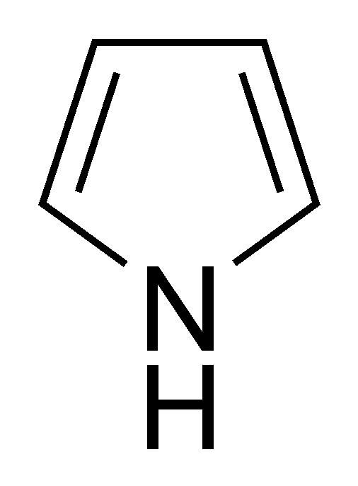 Chemical structure of pyrrole, a simple aromatic ring